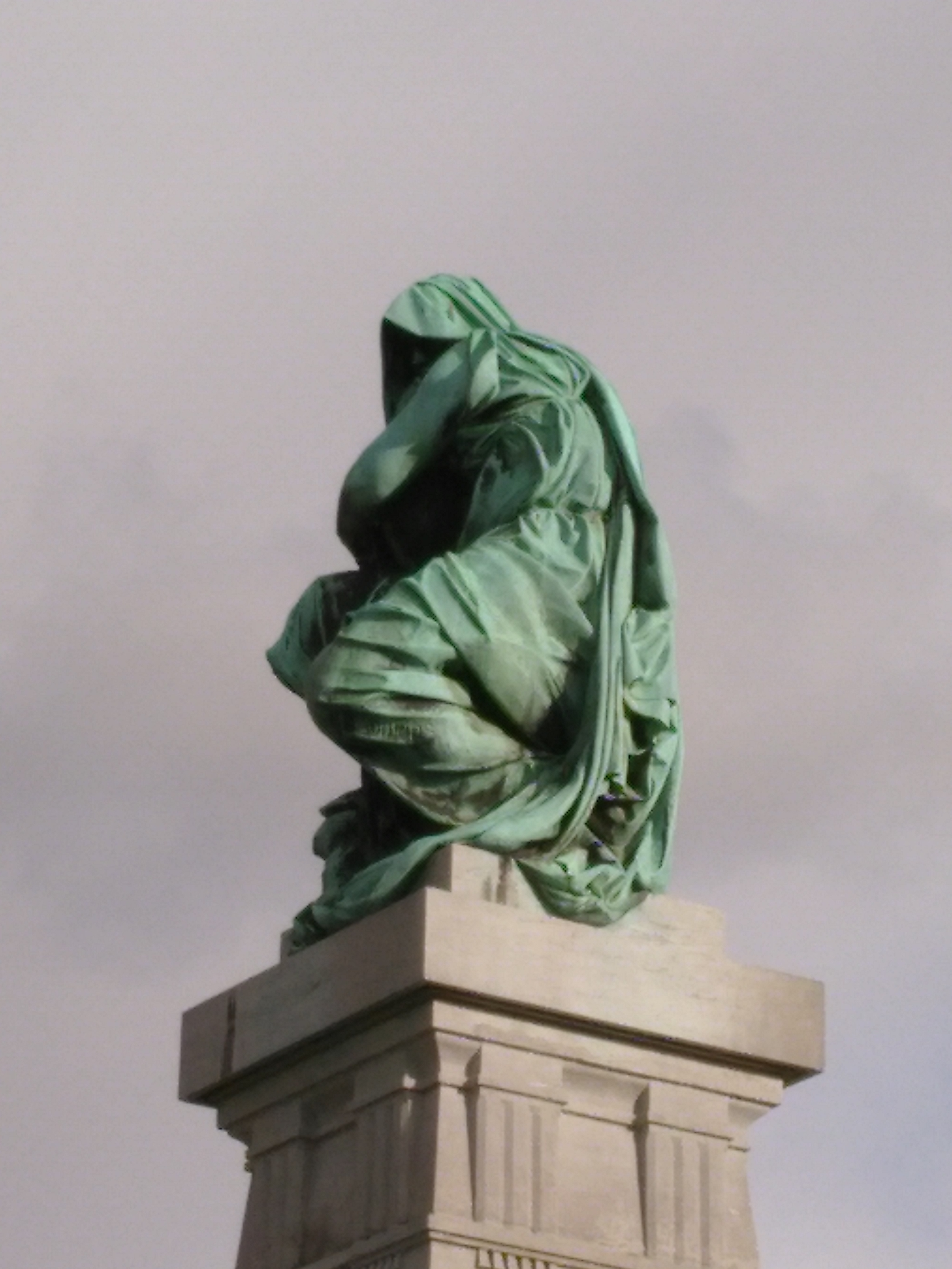 Silence of the Tomb, by Julien Dillens (ca. 1896). Cemetary of Saint-Gilles, Brussels.